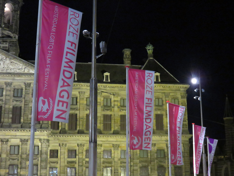 Banners for the annual LGBT film festival Roze Filmdagen in Amsterdam, here in 2017 on Dam square.